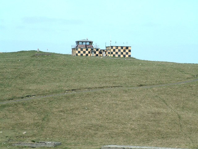 Faraid Head control tower. This building is used as a control centre for the RAF Tornados and other aircraft which carry out low-level ground attacks etc on the ranges near Cape Wrath